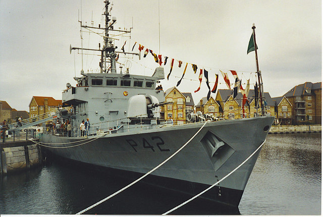 Chatham Navy Days 2002, St Mary's Island. The Irish Navy ship, "Ciara", open to the public. The old Chatham Dockyard here has been redeveloped and smart town houses built on the water's edge.